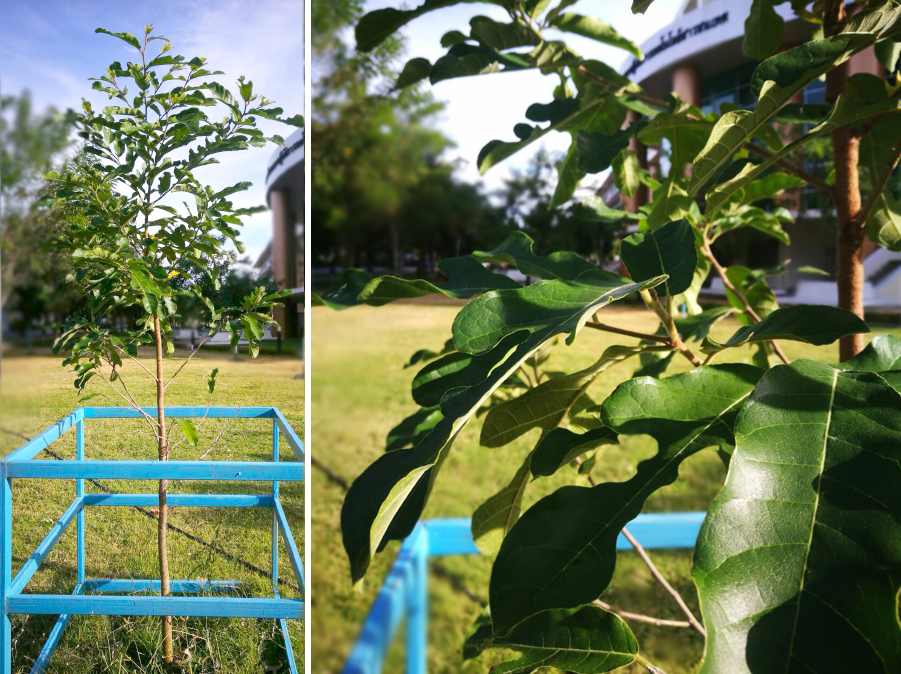 ต้นมะหาด